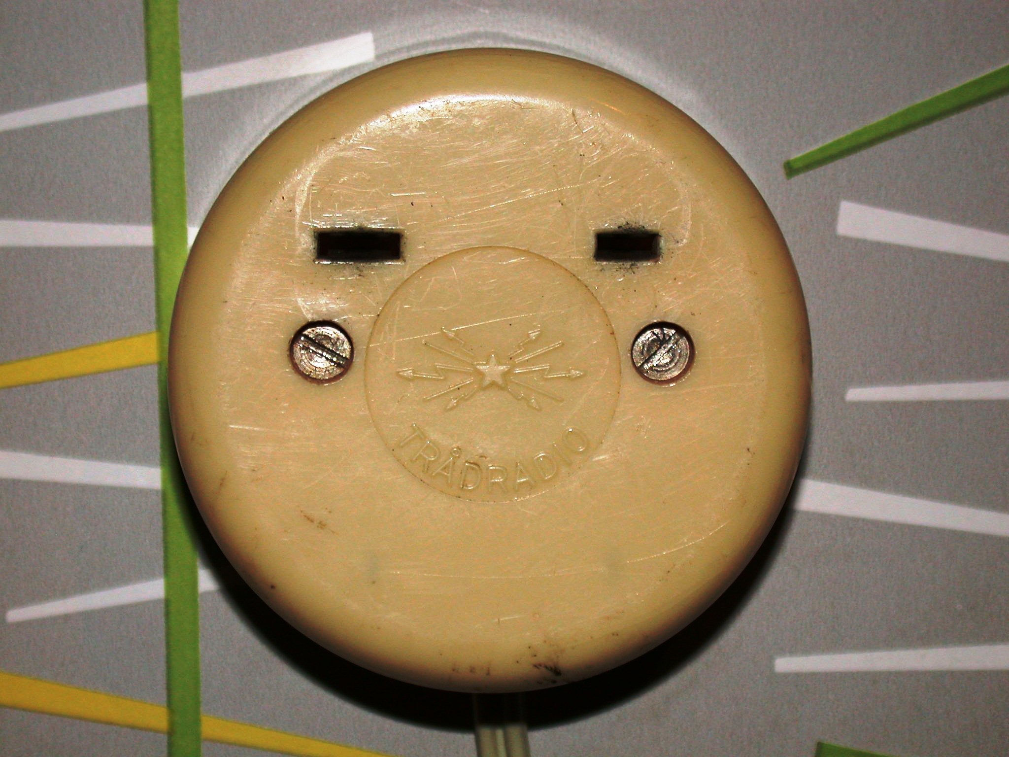 Socket for the swedish wire radio system.